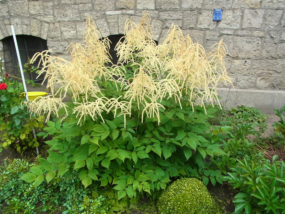 Aruncus dioicus in a front garden in Braunschweig